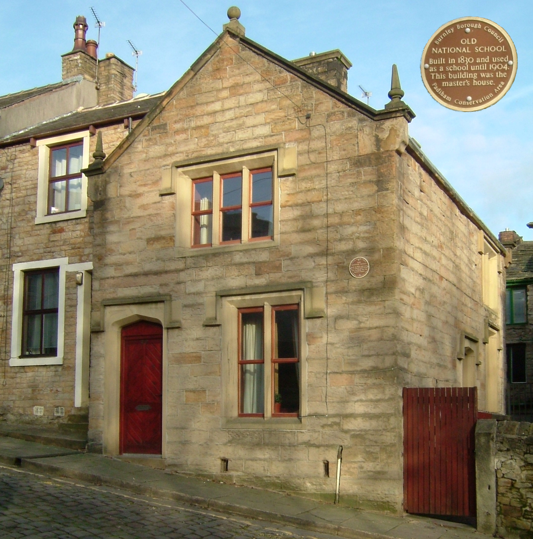 Padiham, England, building exterior